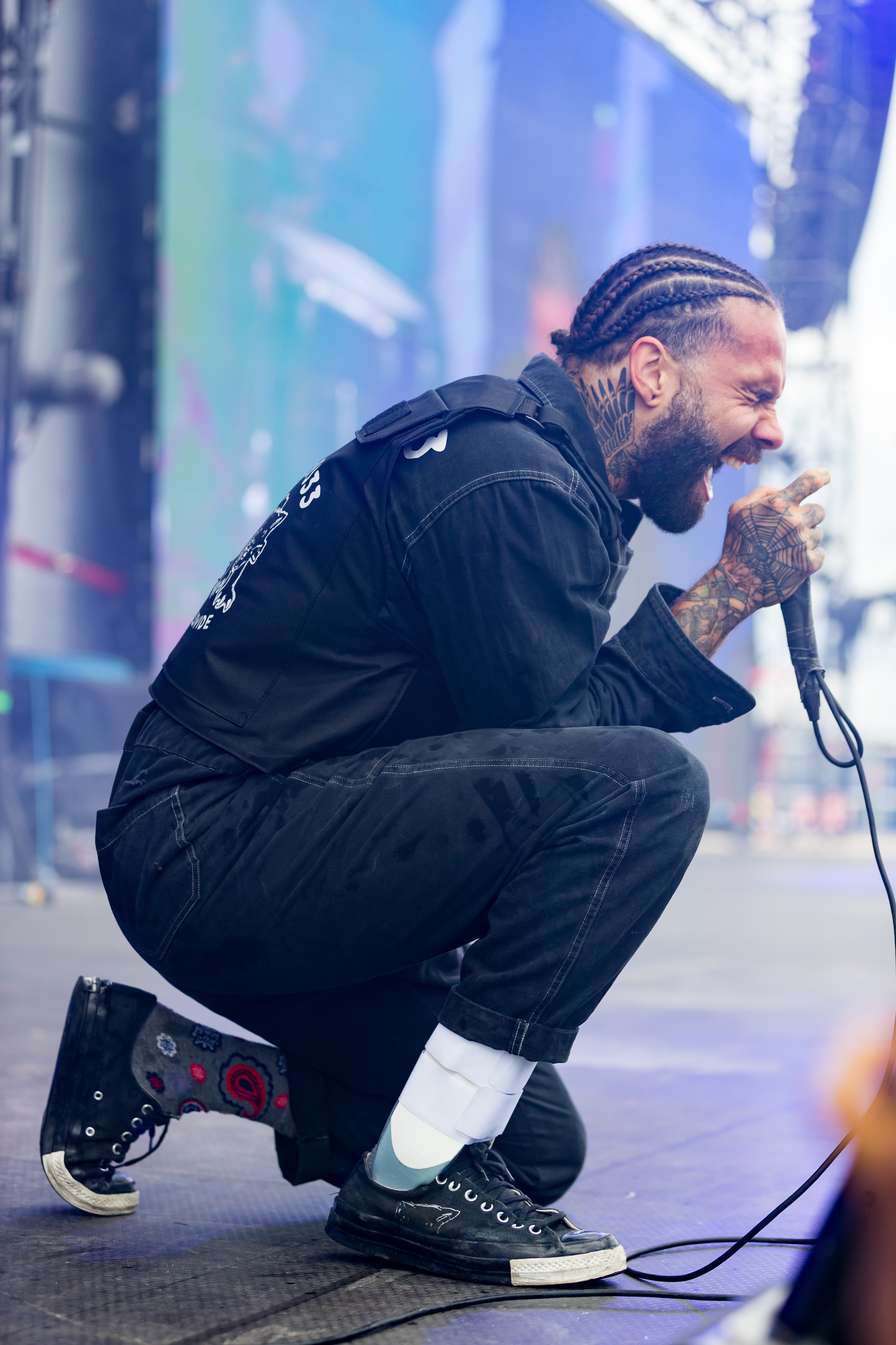 Fever 333 during Rock am Ring ( at Nürburgring, Rheinland-Pfalz, Germany on 2019-06-08, Photo: Sven Mandel Promotion by Live Nation (